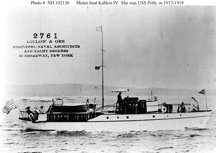 The private motorboat Kahkin IV prior to her United States Navy service as the patrol vessel